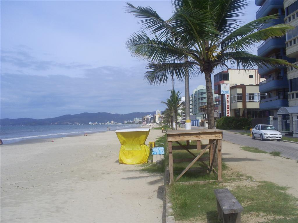 A view from the Itapema Beach , Meia Pria - South Brazil